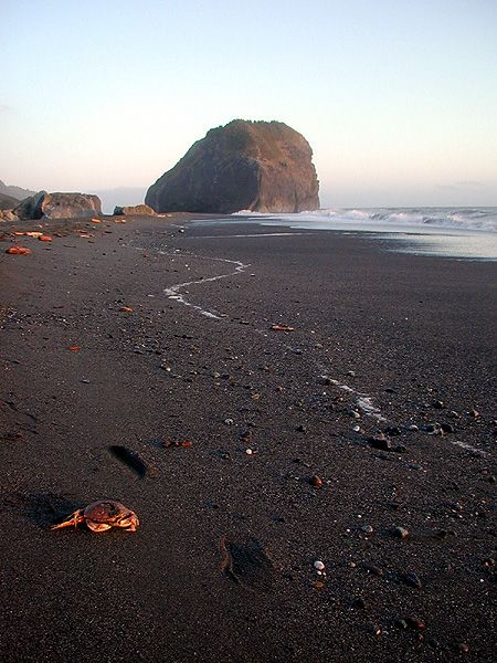 Beach in Redwood National Park, California